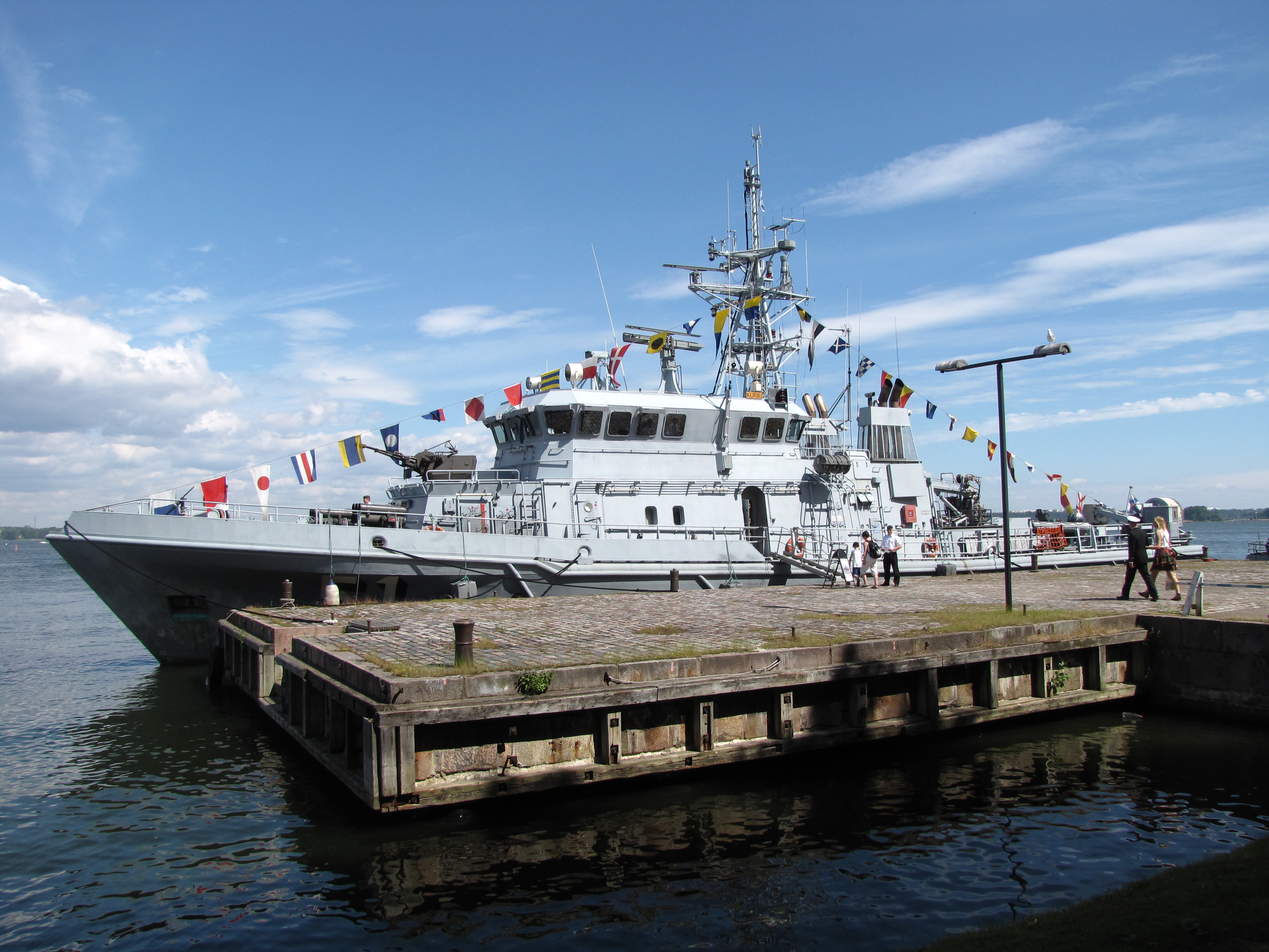 Finnish patrol craft Kurki (51) in Suomenlinna, decorated for the Finnish Navy anniversary celebrations.